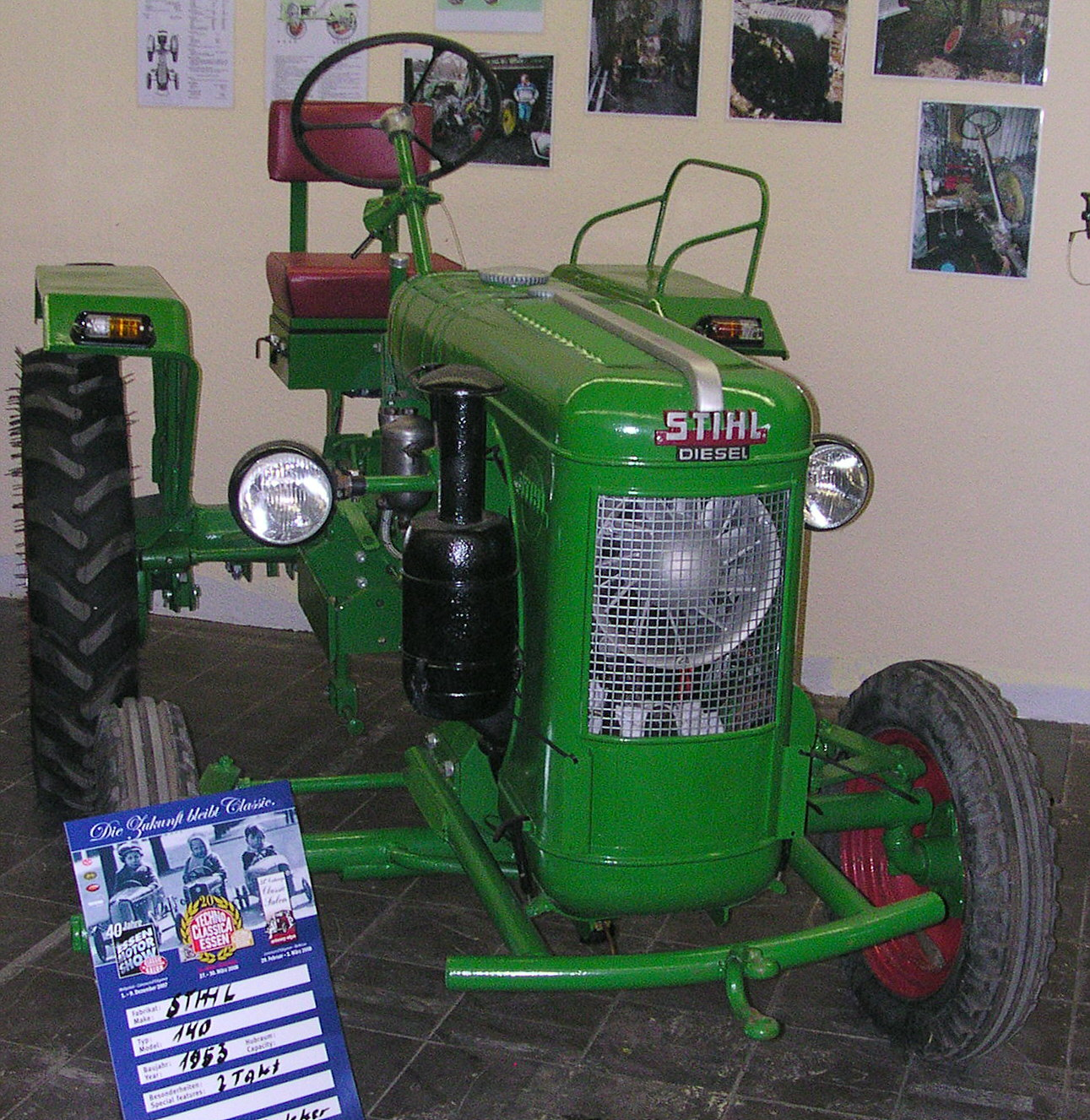 Essen Techno-Classica 2007, Stihl 140 tractor